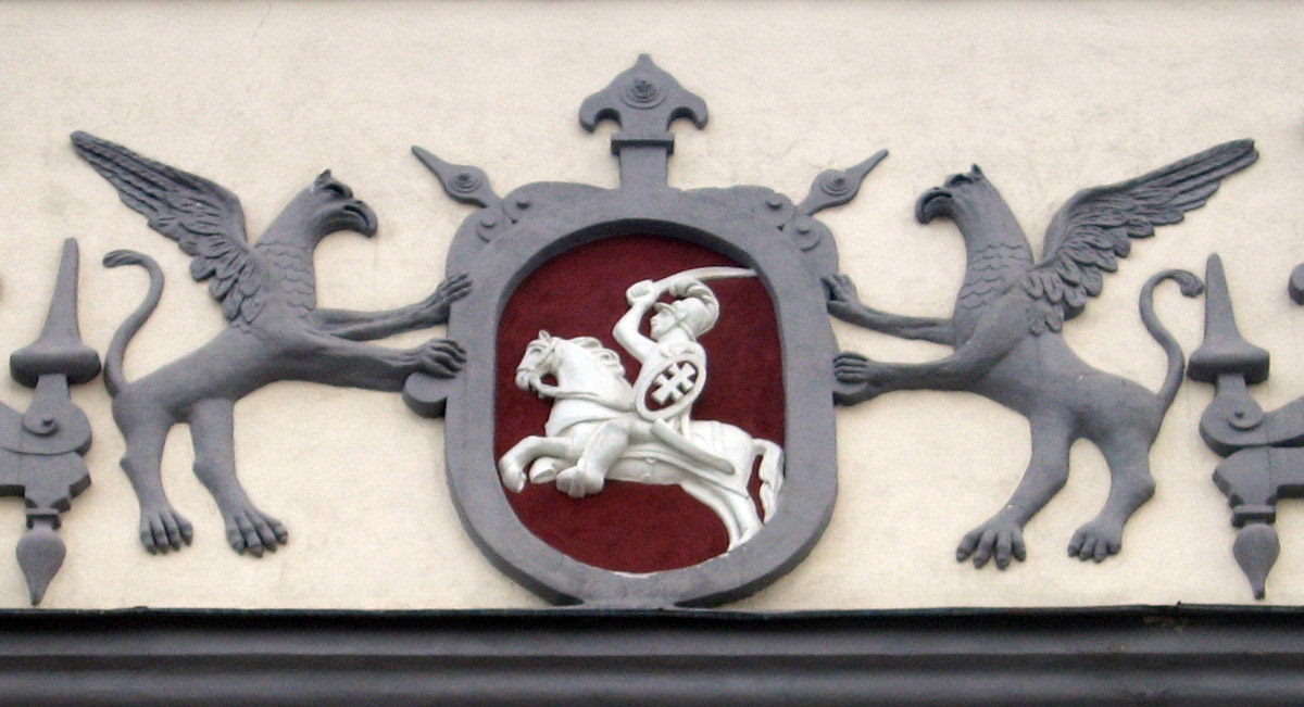 Coat or arms - Vytis.Dawn Gate (Outside)